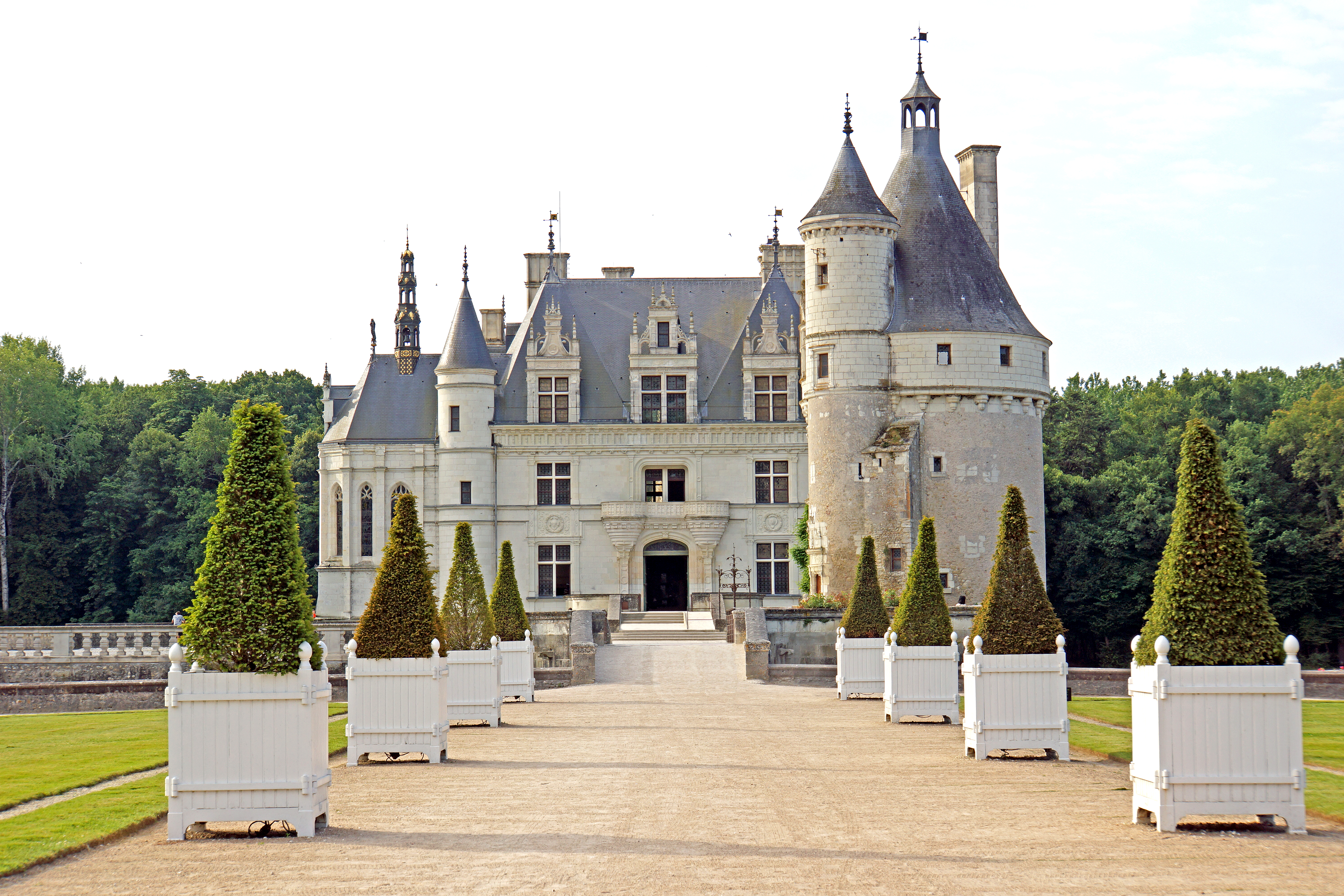 PLEASE, NO invitations or self promotions, THEY WILL BE DELETED. My photos are FREE to use, just give me credit and it would be nice if you let me know, thanks. Château de Chenonceau spans the River Cher, near the small village of Chenonceaux. It is one of the most well-known châteaux of the Loire valley. The current château was built in 1514-1522 on the foundations of an old mill and was later extended to span the river. The bridge over the river was built between 1556-1559. The original château was torched in 1412 by King Charles VII to punish owner Jean Marques for supporting the Duke of Bourgogne and the English. The son built a new château and fortified mill on the site. He sold the castle to Thomas Bohier in 1513 who destroyed the castle, though its 15th-century keep was left standing. He then built an entirely new residence between 1514 and 1522, much of what we see today.